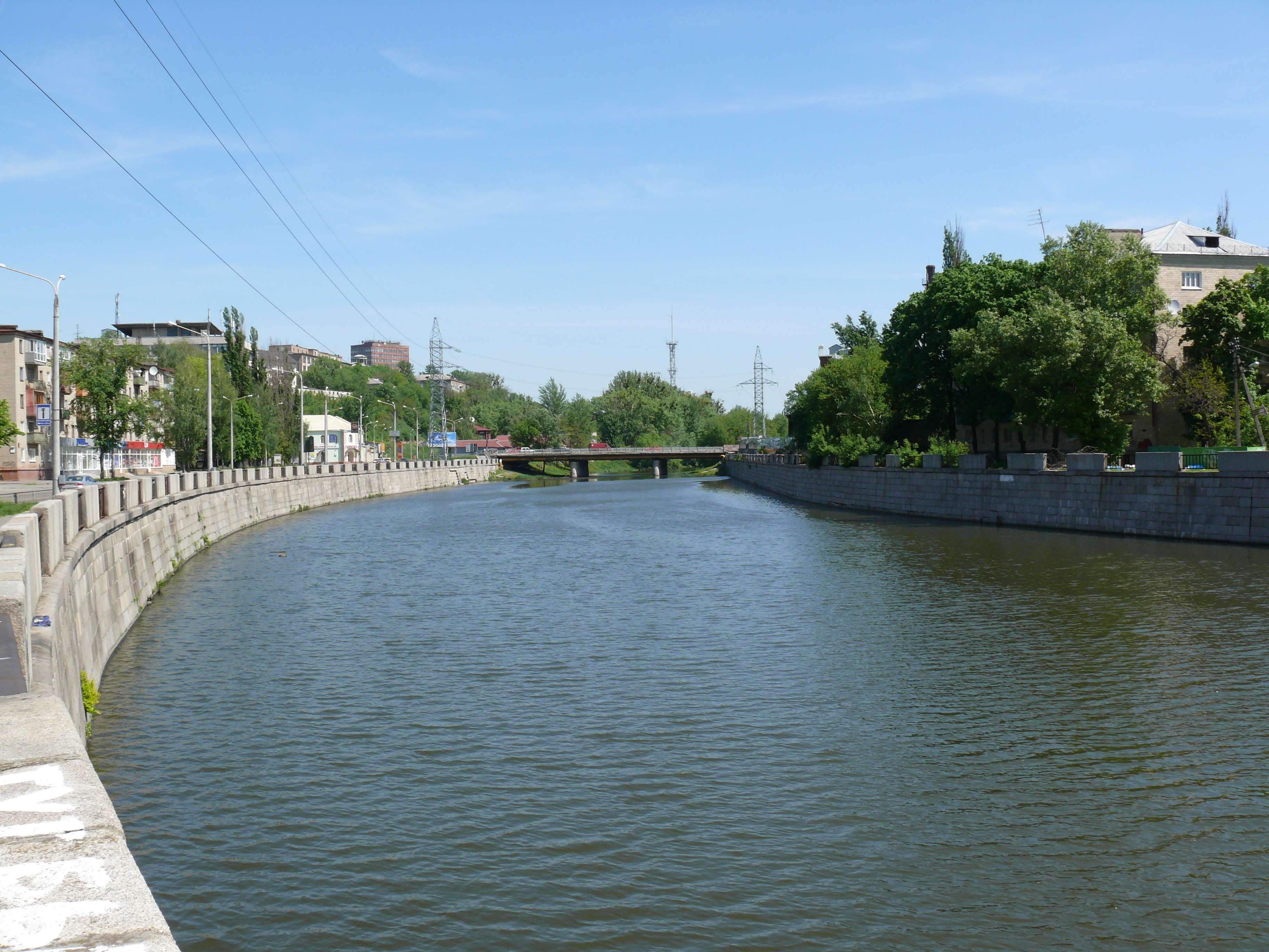 Chigirin bridge in Kharkov, Ukraine